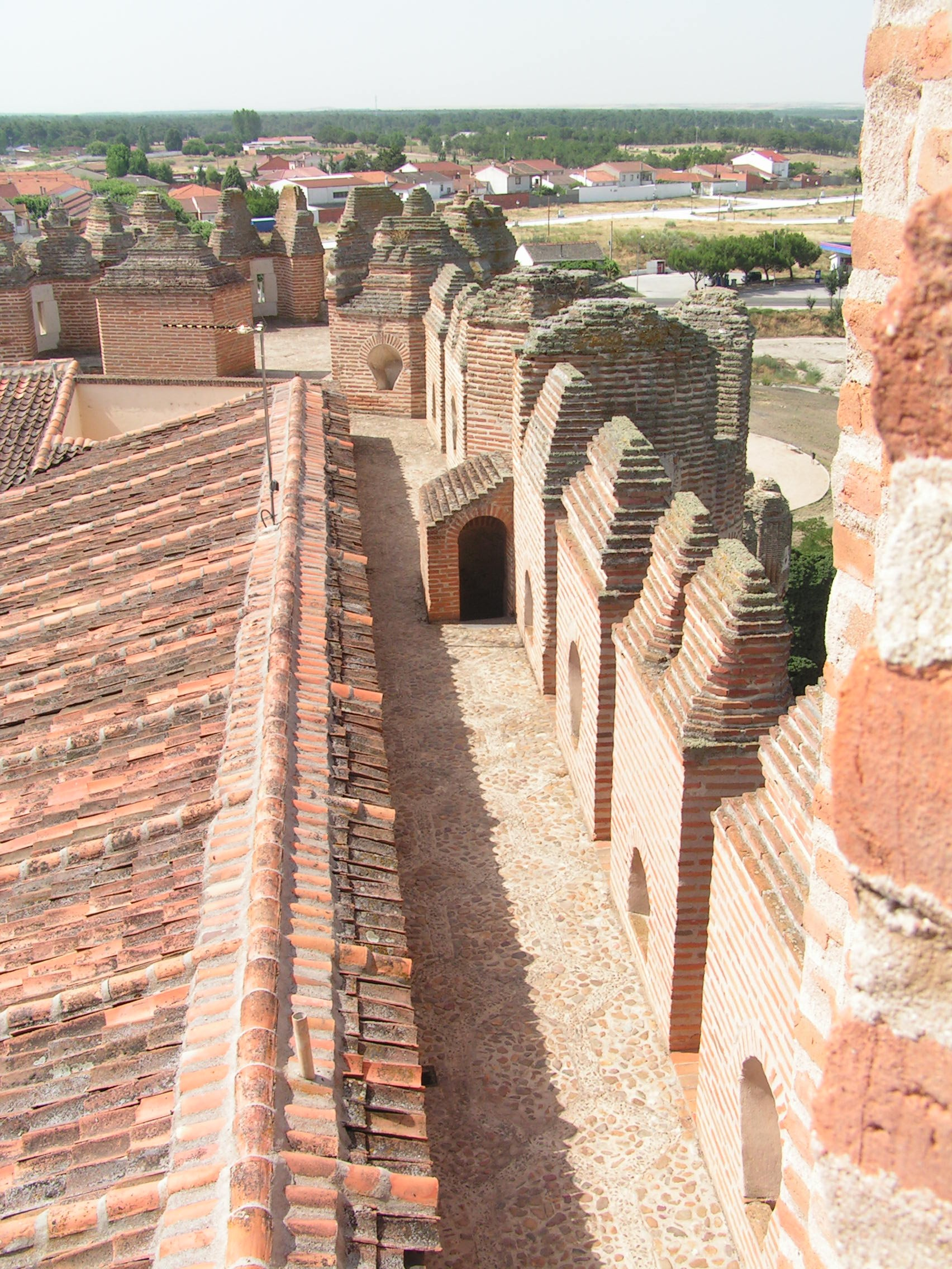 Castle of Coca in Coca, Spain